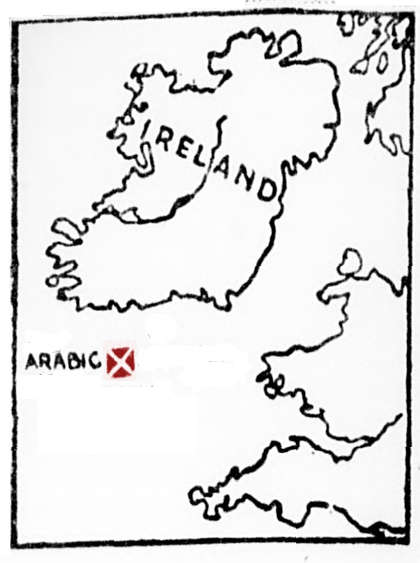 Contemporary map of the position in the Celtic Sea where RMS Arabic was sunk. Original modified: Other ship names removed and "X" coloured red for conspicuity.